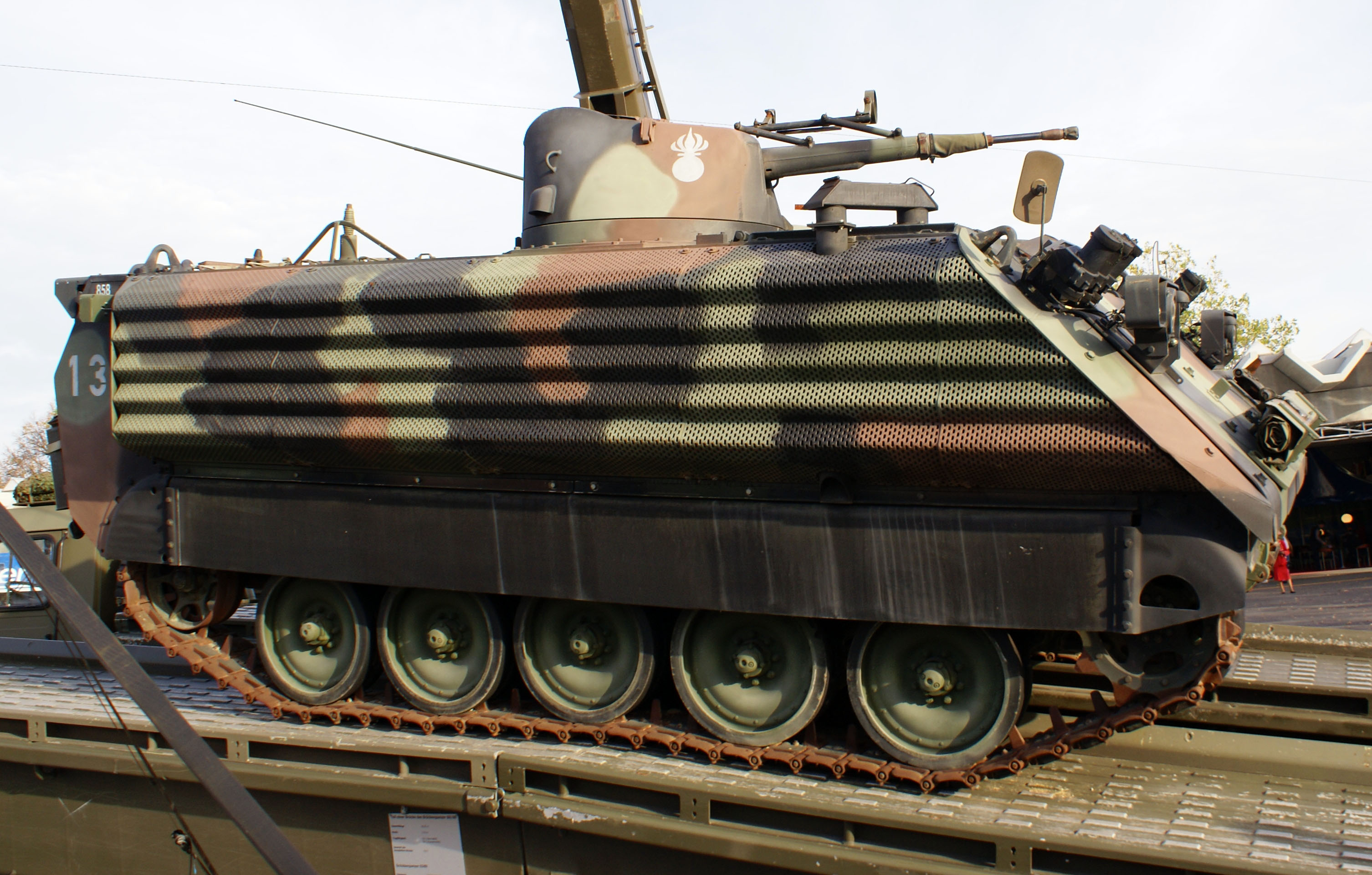 Swiss Army. M113 ATC (improved) for mechanised infantry. US import., Cannon 20 mm Hispano-Suiza (Suisse)